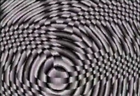 demo effect